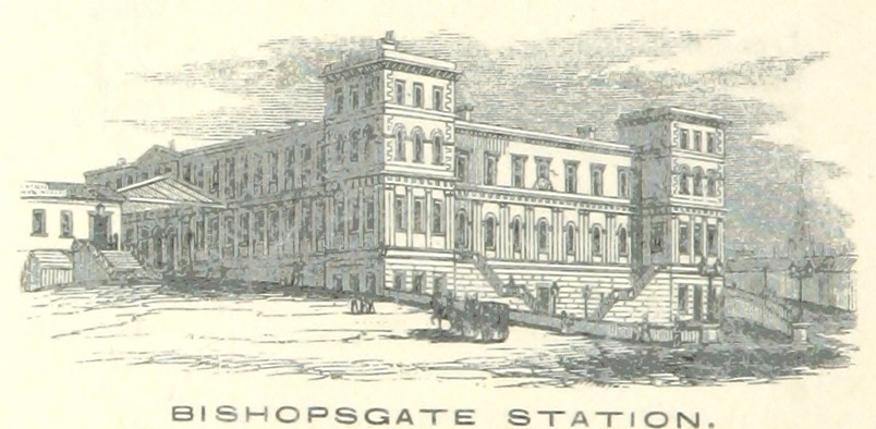 West front of Bishopsgate railway station, opened in 1840, as pictured in 1851. (cf 1870s plan). The passenger station was closed in 1875, and then extensively reconstructed between 1878 and 1880 to convert it into a goods depot. "By May 1880 the old facade and side walls had been completely removed." [1]